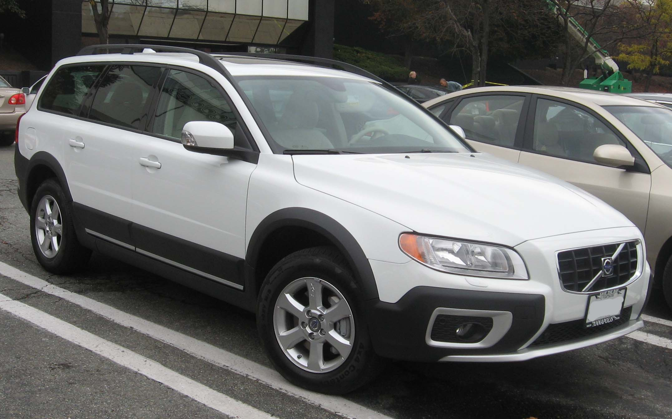 2008 Volvo XC70 photographed in Rockville, Maryland, USA.